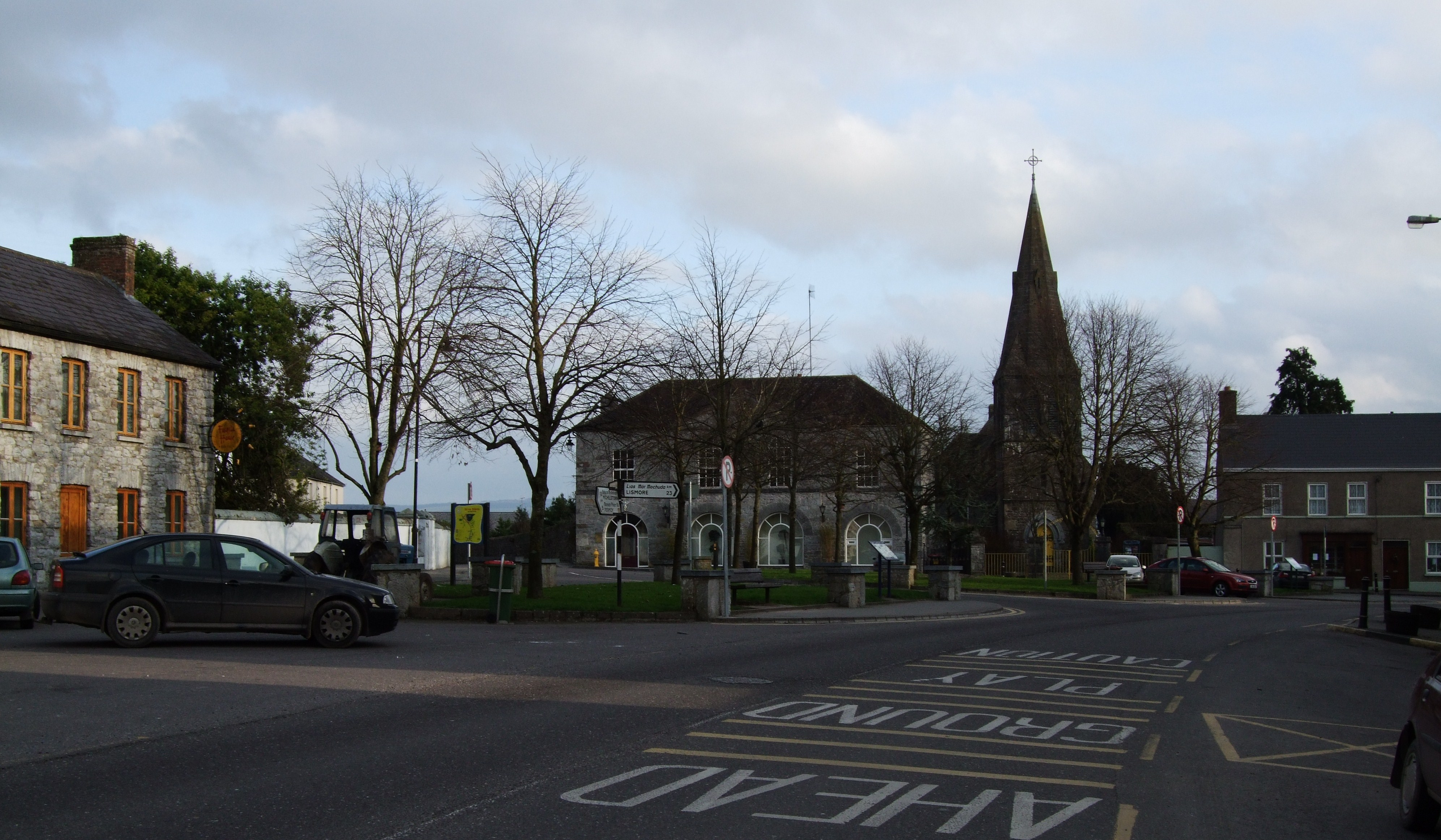 Kilworth village